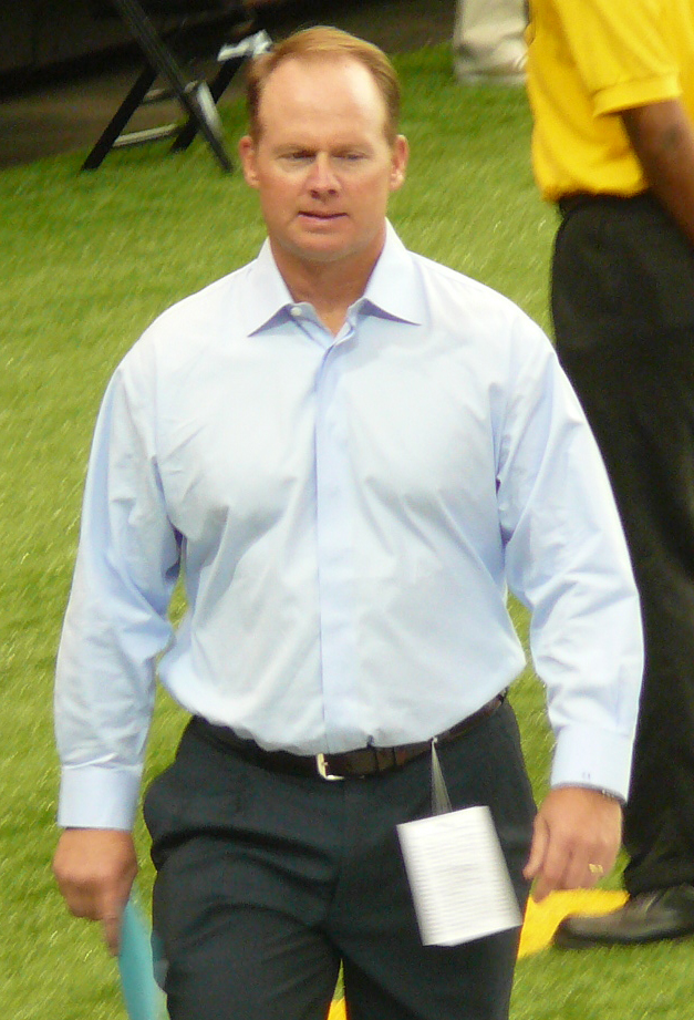 If used somewhere other than Wikipedia, Nelson, by name.